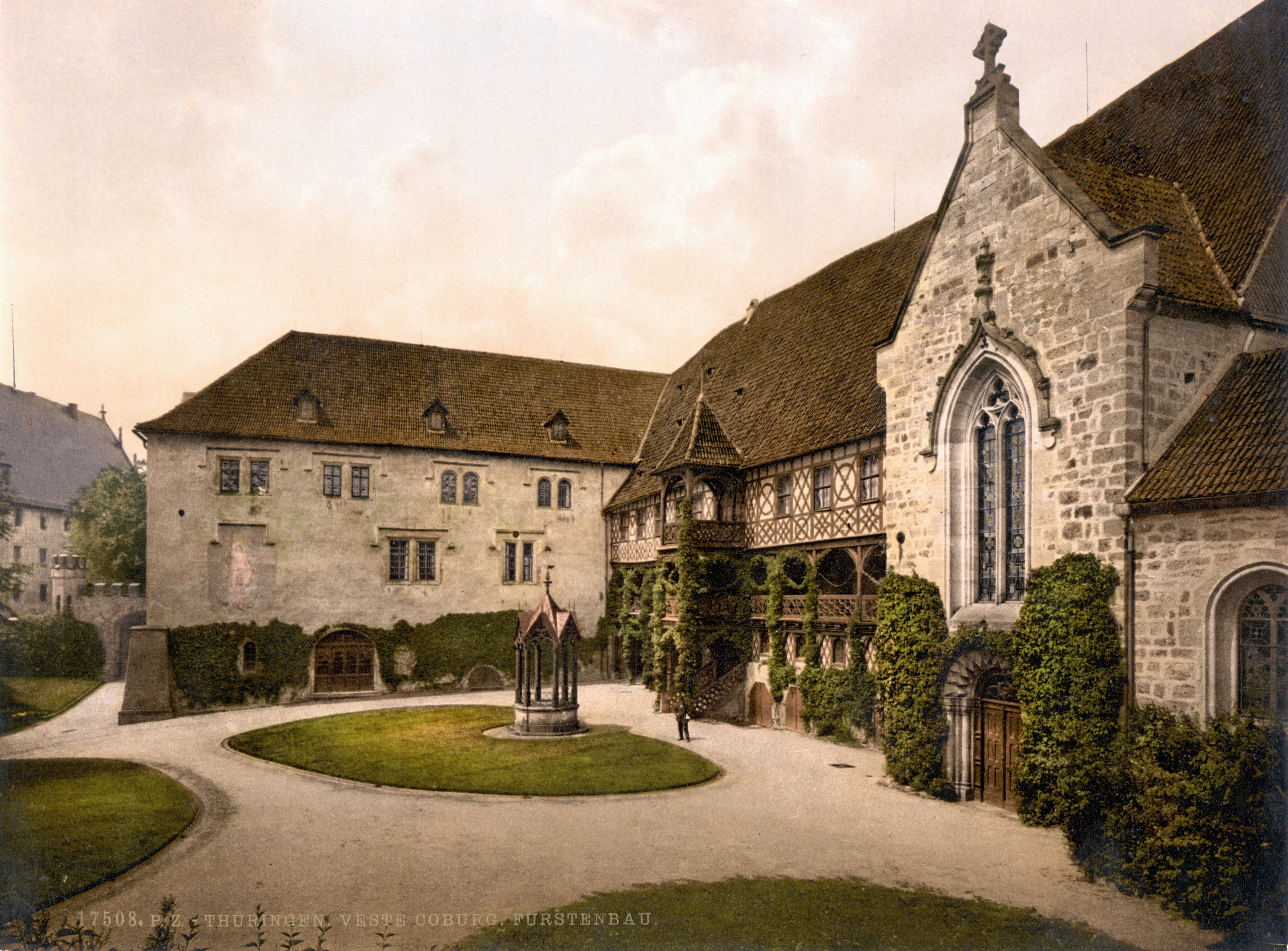 The Veste Coburg, Fuerstenbau